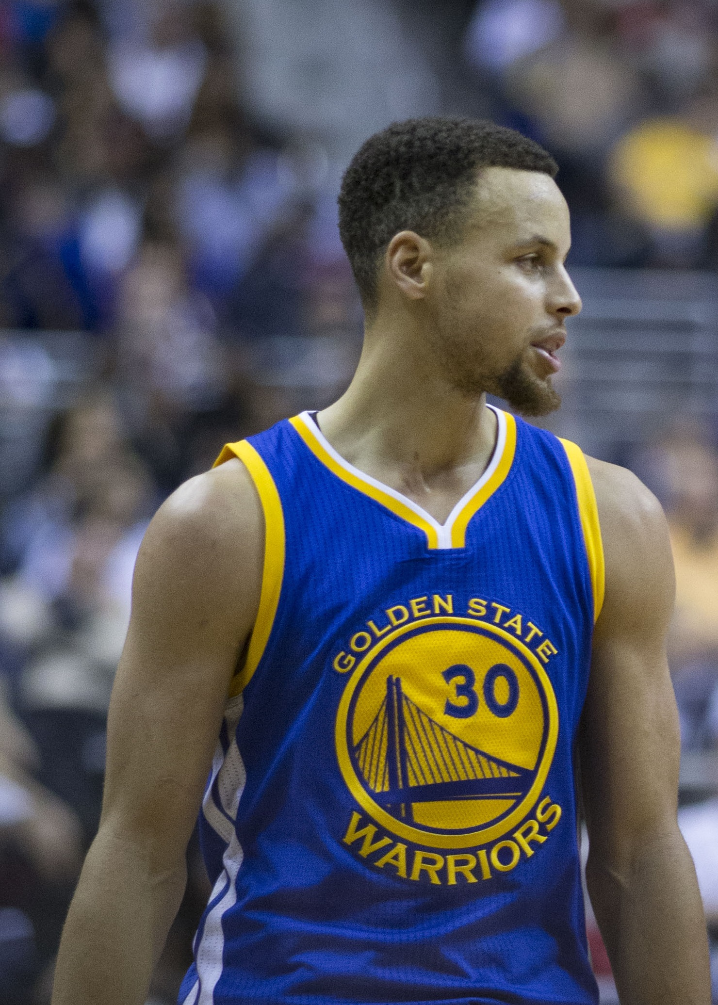 Warriors at Wizards 2/3/16